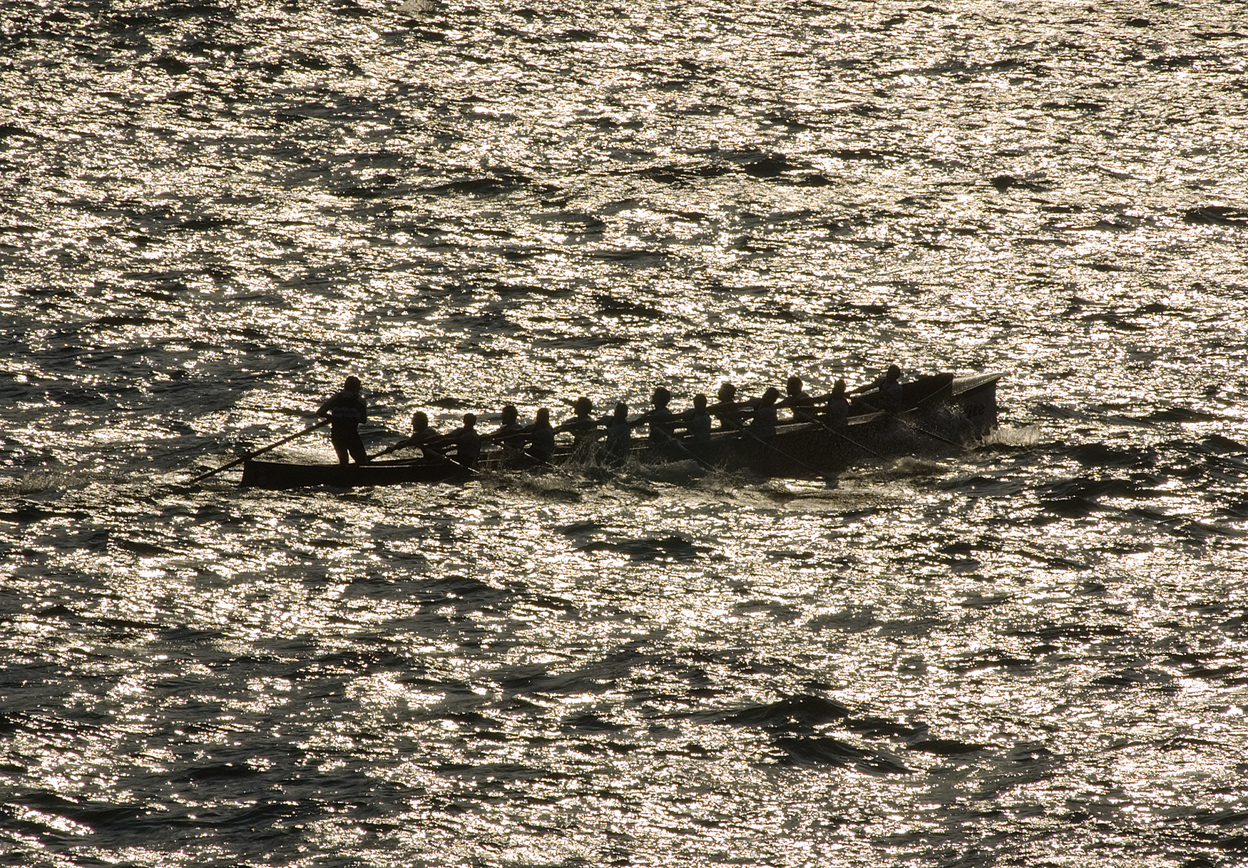 Classification run for the Flag of La Concha competition. The seven best times classificated for the race held on the first two weekends of September 2007. This team is Kaiku, which with a time of 21'57.92" did 17th.